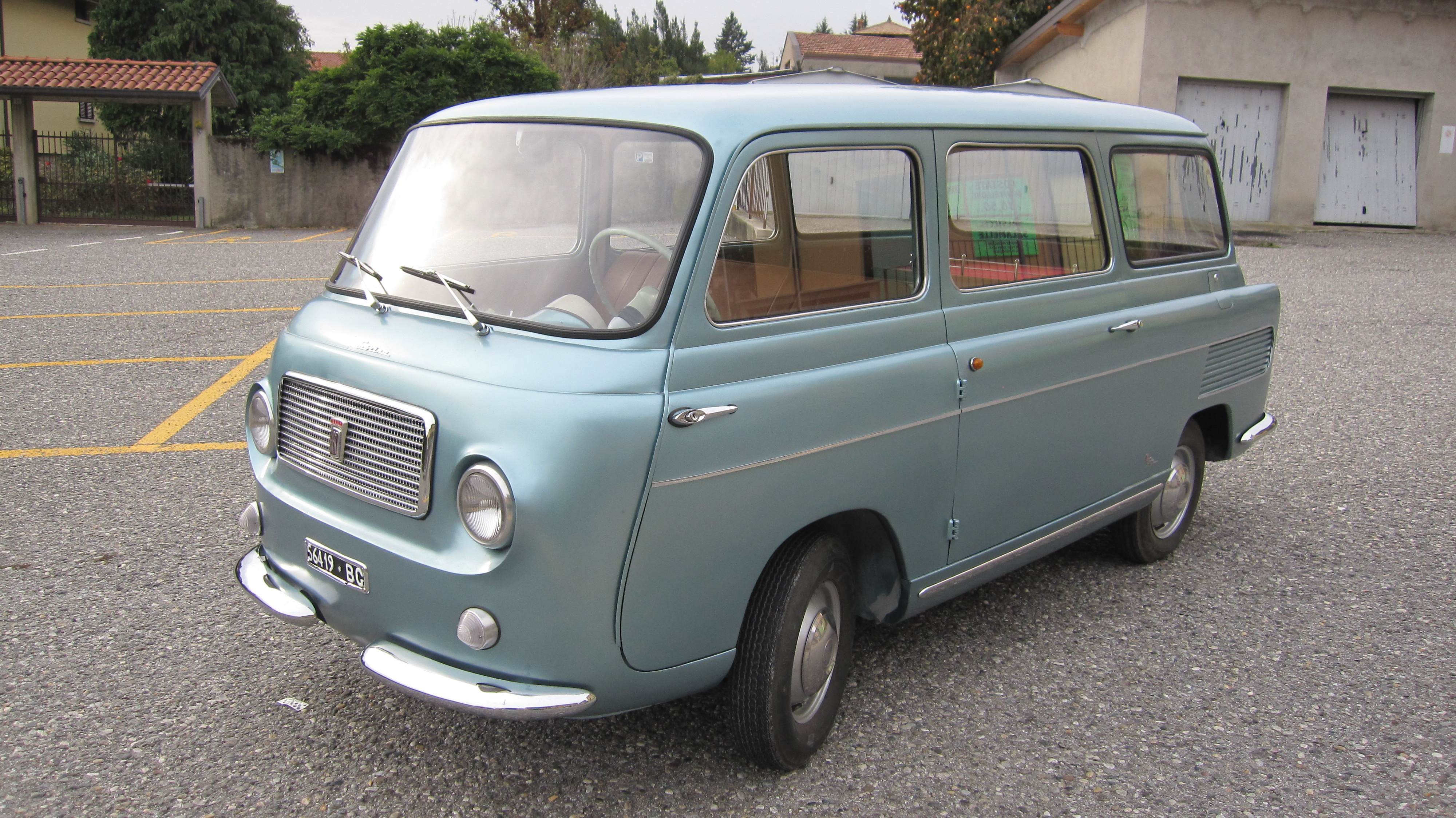 "Fiat 600 Multipla" modified by "Carrozzeria Fissore" model "Sabrina", 1959